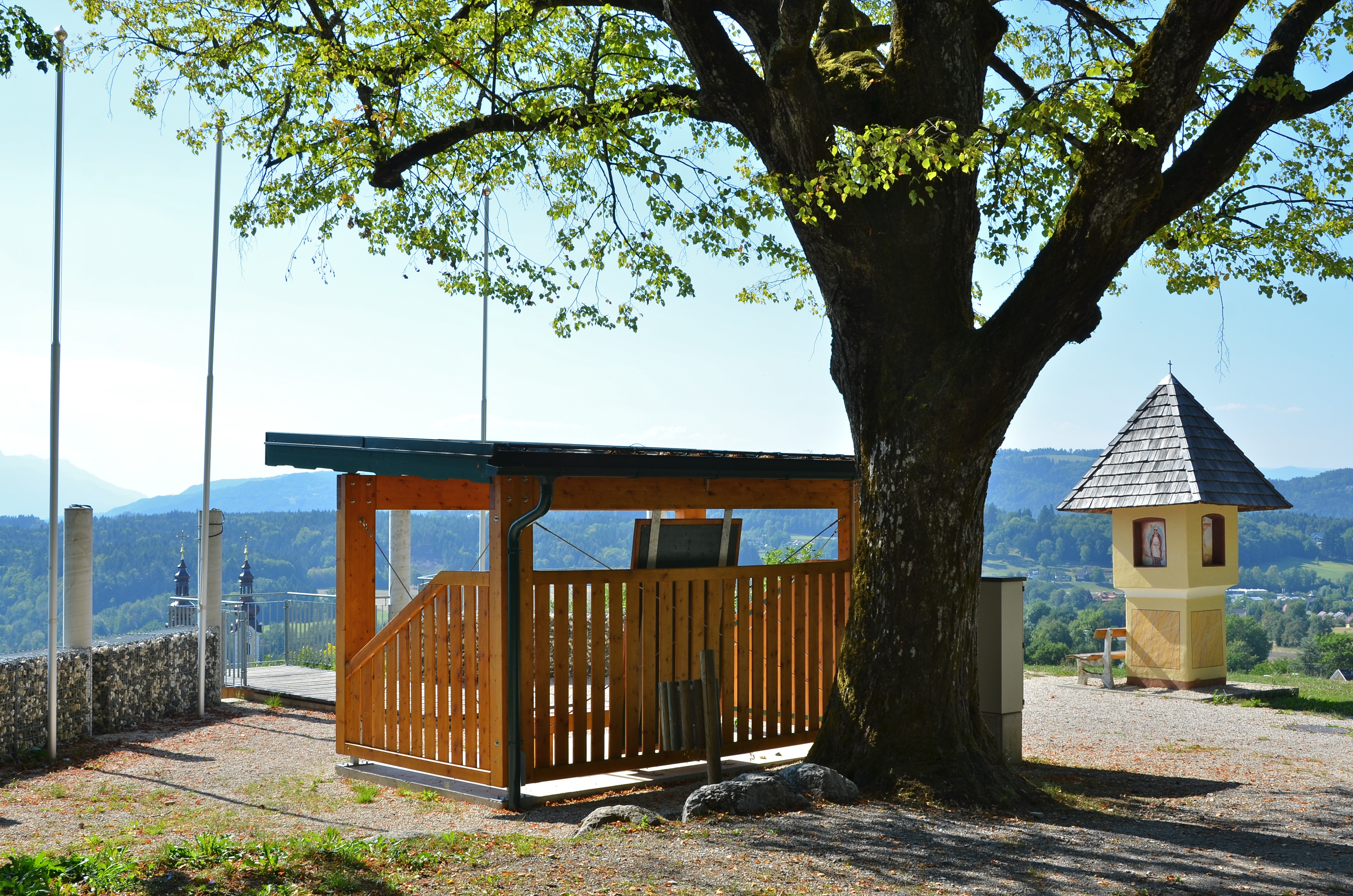 New “Kaiserhütte” (erected in 2009) and wayside shrine on Kaiserhüttenweg, municipality Maria Rain, Klagenfurt Land, Carinthia, Austria, EU